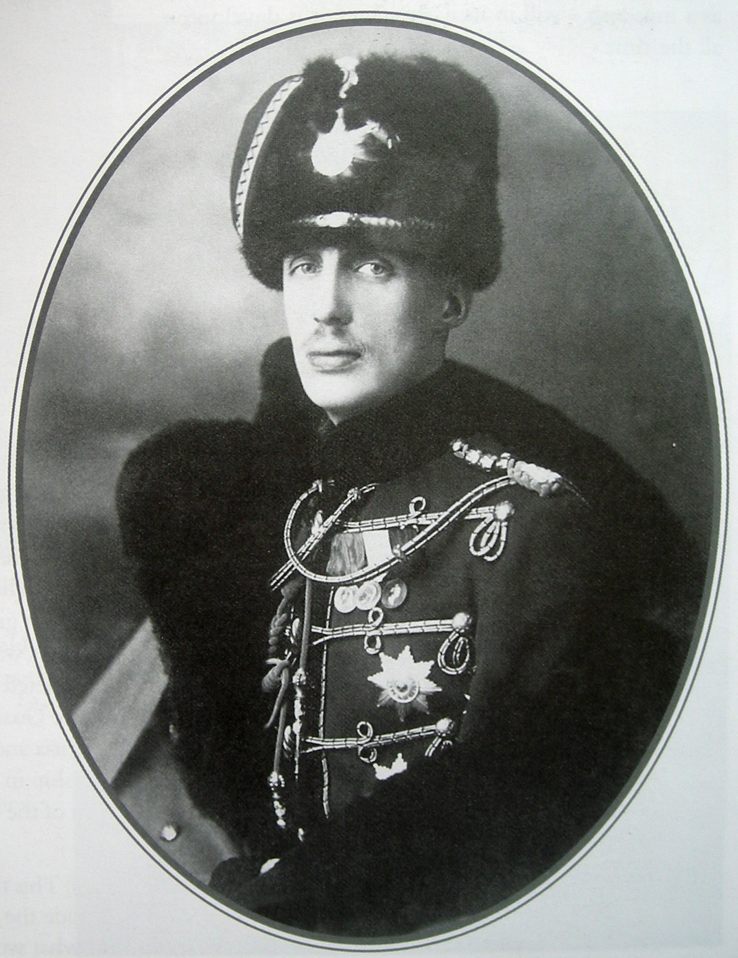 Prince Gavril Constantinovich